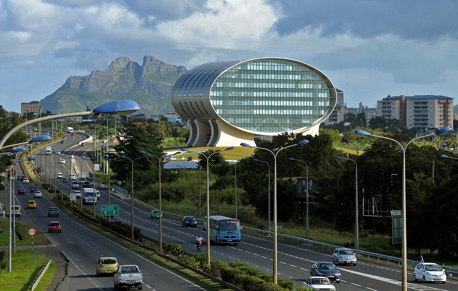 Mauritius Commercial Bank's branch in Ebene Cybercity